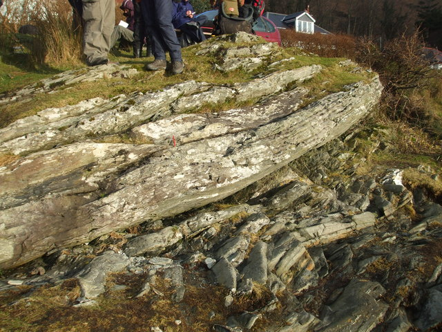 Old Greywacke This is a Greywacke on the shore of Lochranza dating from the Lower Cambrian. It was deposited on the bottom of a deep Ocean along with black muds and shales. They form when a large underwater sediment built up then collapsed forcing sediment of varying sizes out into the Abyssal plane. The sediments settle out heaviest first causing fining up sequences, once all is calm there is usual sedimentation again for a few thousand years then it all happens again, causing turbidite sequences. They were laid down when the land mass was at a latitude of 27oN. When looking at geological maps of the island it can be seen that the Dalradian deep marine sediments occur in the northern part. After their deposition as marine turbiditic (or Greywackes), the rocks have undergone metamorphism to produce metamorphosed greywackes and schists. The regional metamorphism was caused from large earth movements and events in particular the Caledonian Orogeny (collision of Laurentia, Baltica and Avalonia with the closure of the Iapetus Ocean). The rocks underwent slight chemical changes with Chlorine giving then a green tint, the Chlorite grade rocks are at the outer edge of the Barrovian Zones. They were heated and compressed up to roughly 400 degrees temperature and 500 kilobars pressure. Around 60 Ma the Atlantic formed, magma was forced to the surface like blood when skin tears (America split from Europe). Then like a massive spot a Granite Pluton pushed upwards bending the surface rocks and folding and heating them again. The granite core can still be seen today.